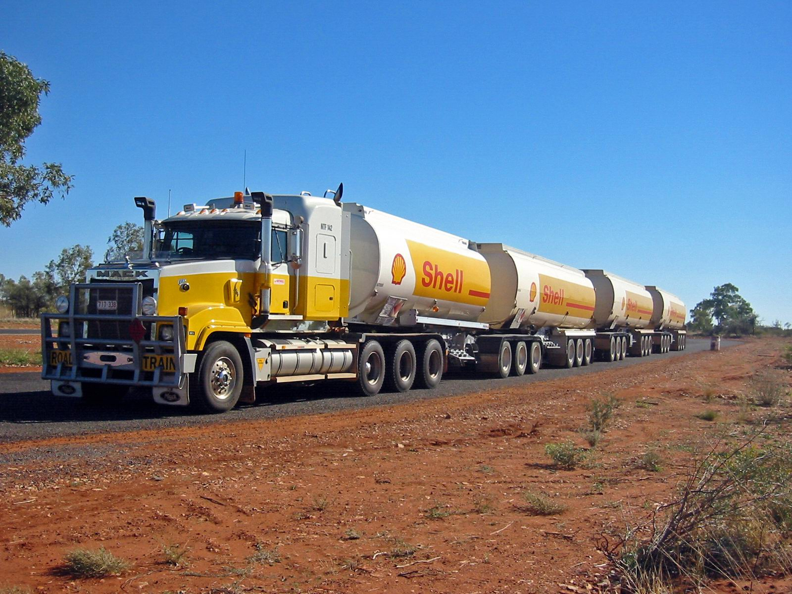 Typical Road Train, Australia. B-train with two dolly/semi units.